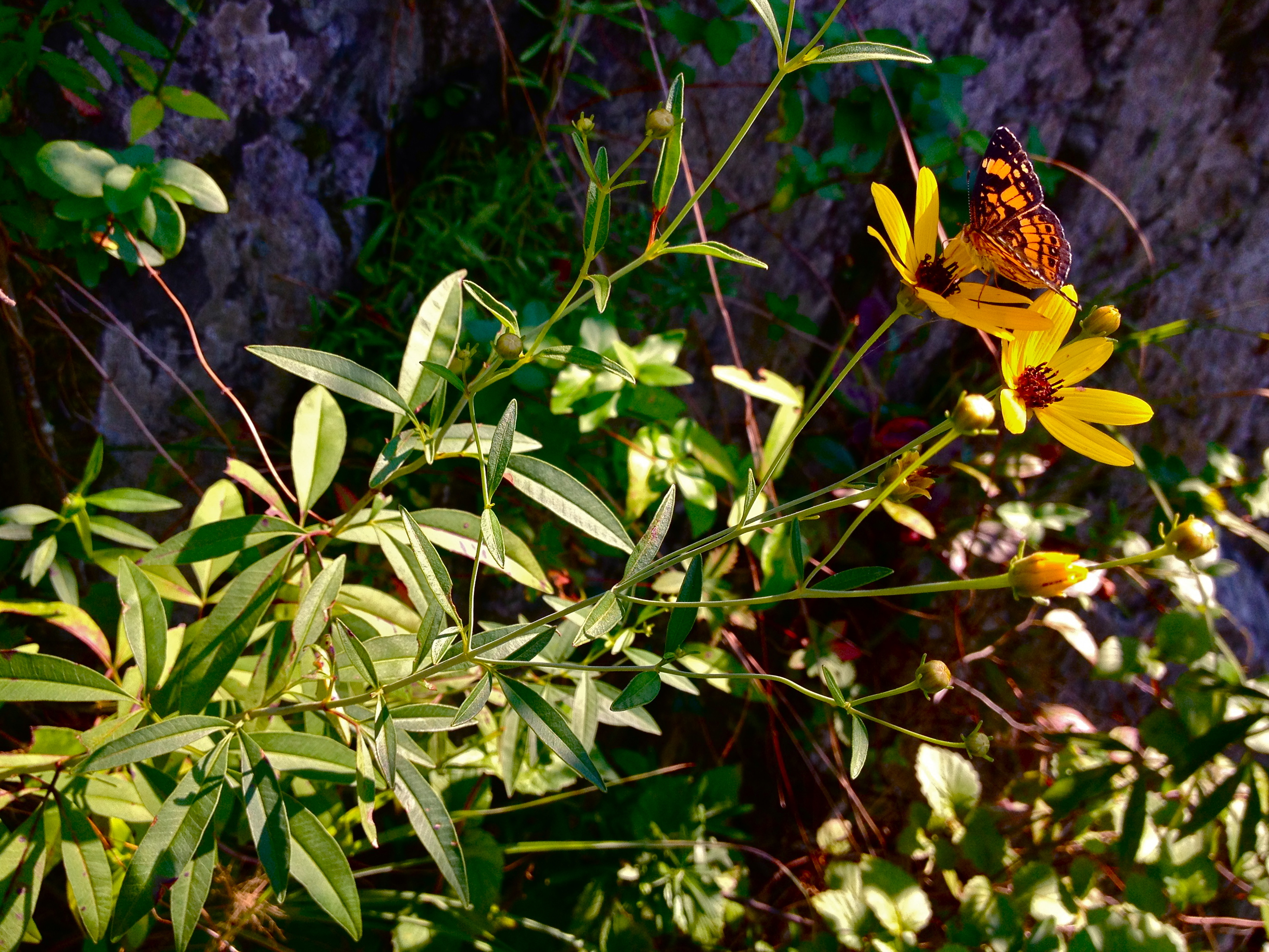 Photo of Coreopsis tripteris in flower. This is a native plant growing wild in Great Falls Park, Fairfax county Virginia, USA. This species is a member of the Asteraceae family.